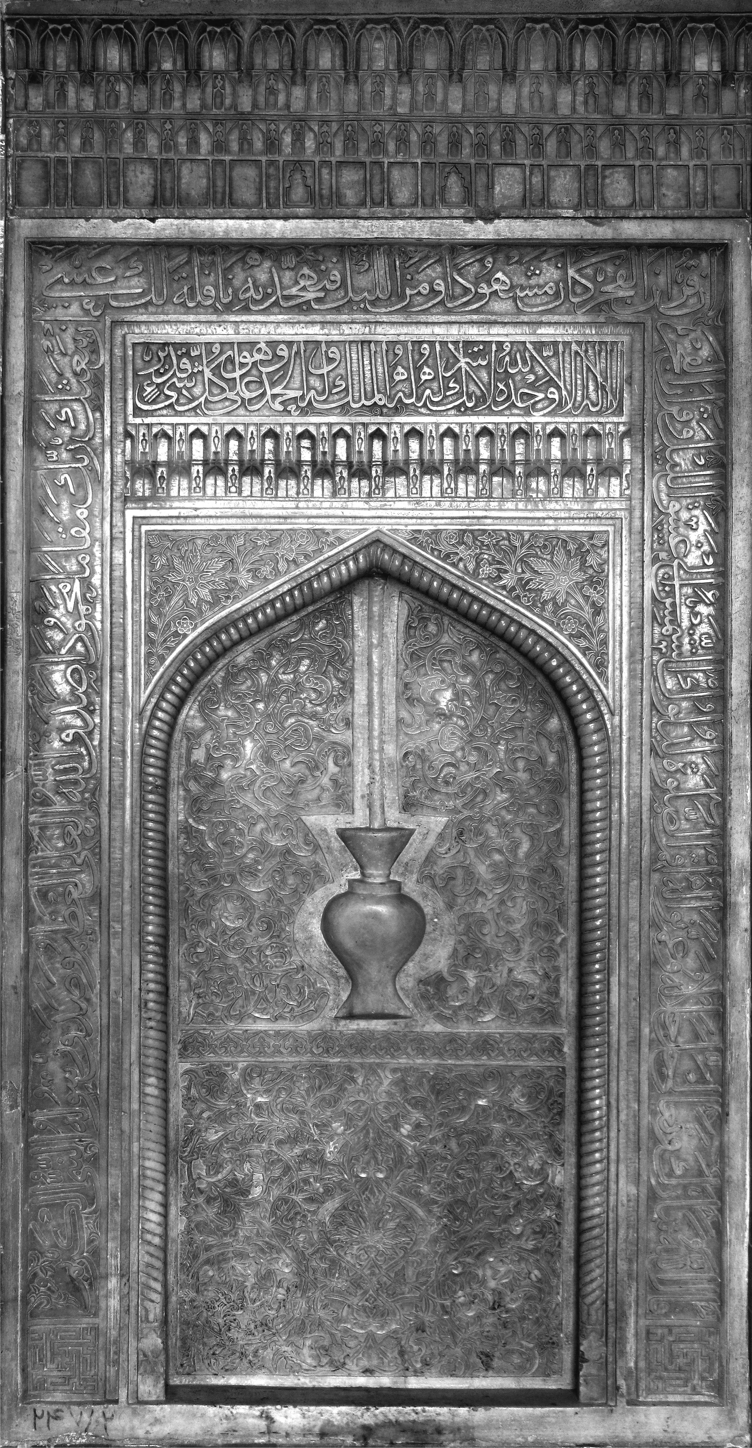 Mehrab from Masjed-e-Amir Chakhmaq in Yazd.